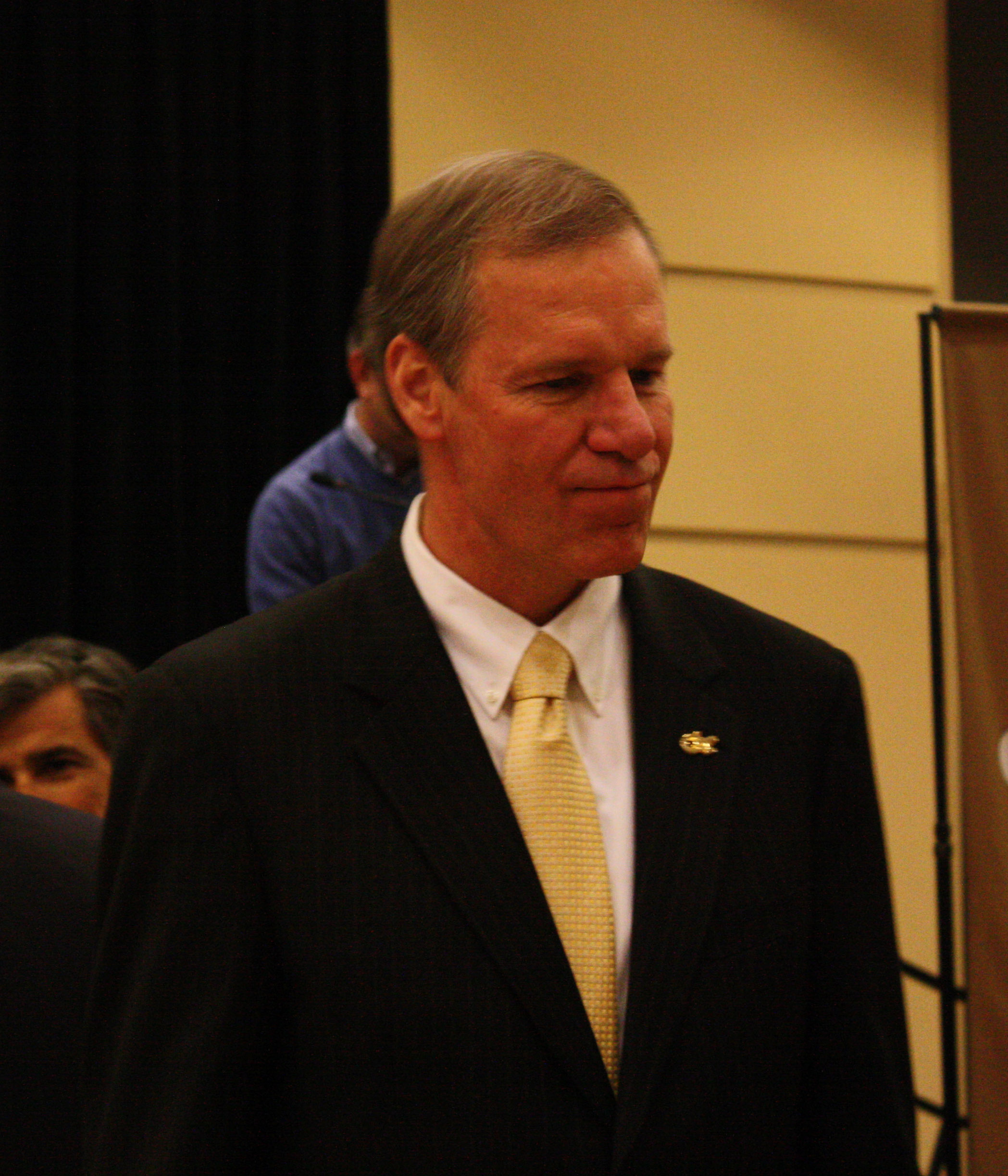 George P. "Bud" Peterson at a reception